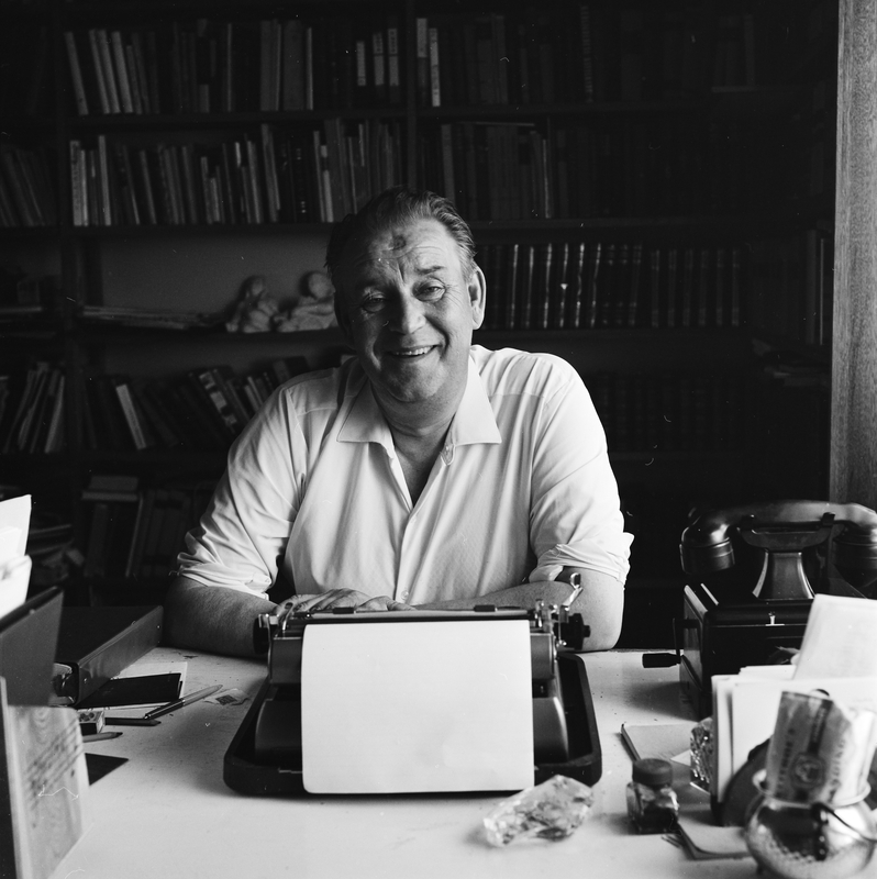 Norwegian author and artist Alf Prøysen at home in Nittedal 1964